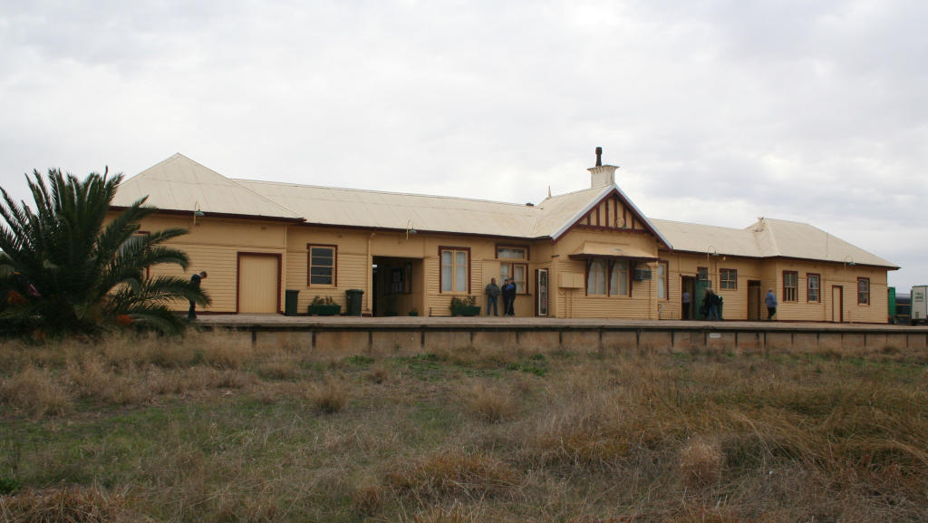 Tocumwal railway station, New South Wales station building. NSW (standard gauge) side.